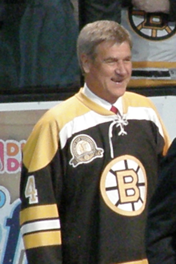 4, Bobby Orr Pittsburgh Penguins at (vs) Boston Bruins, TD Banknorth Garden (Boston Garden), March 18, 2010